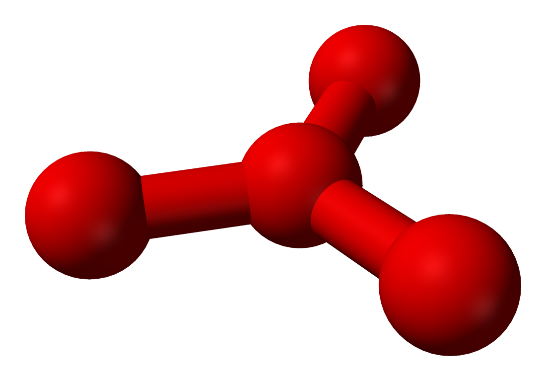 Ball-and-stick model of a proposed D3h structure for the tetraoxygen molecule, O4. Structural data from Røeggen, I.; E. Wisløff Nilssen (May 1989). "Prediction of a metastable D3h form of tetra oxygen". Chemical Physics Letters 157 (5): 409–414. Image generated in Accelrys DS Visualizer.